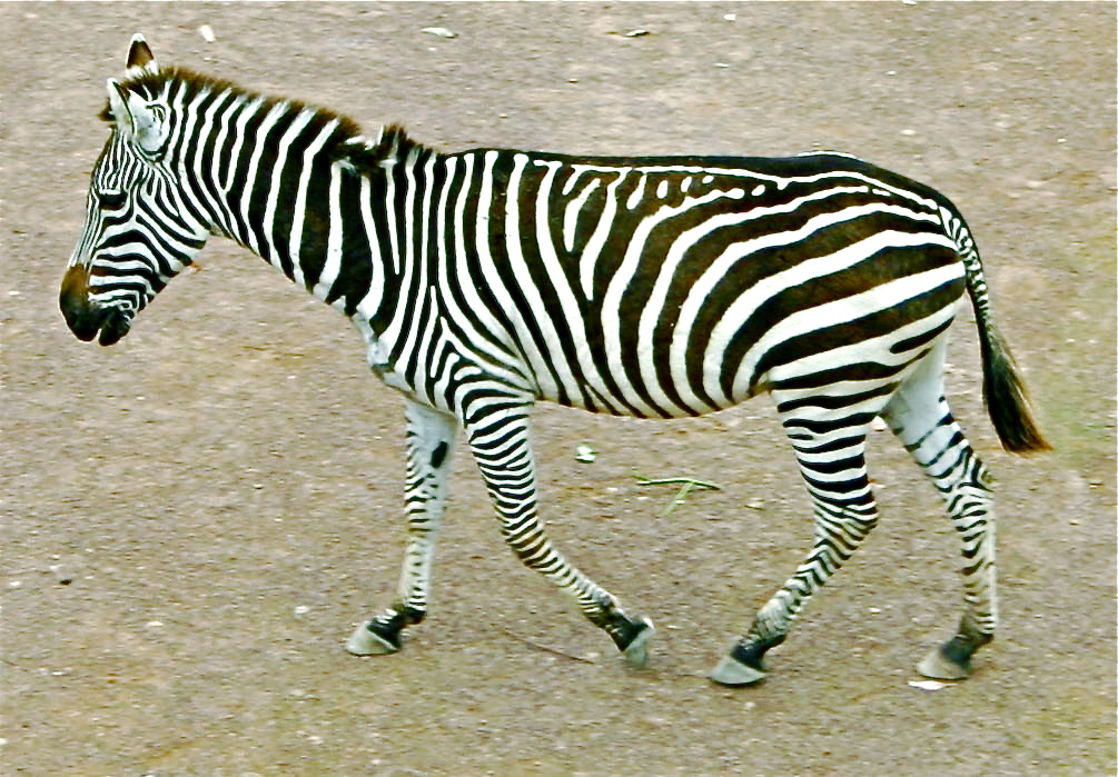 Zebra in Wellington Zoo